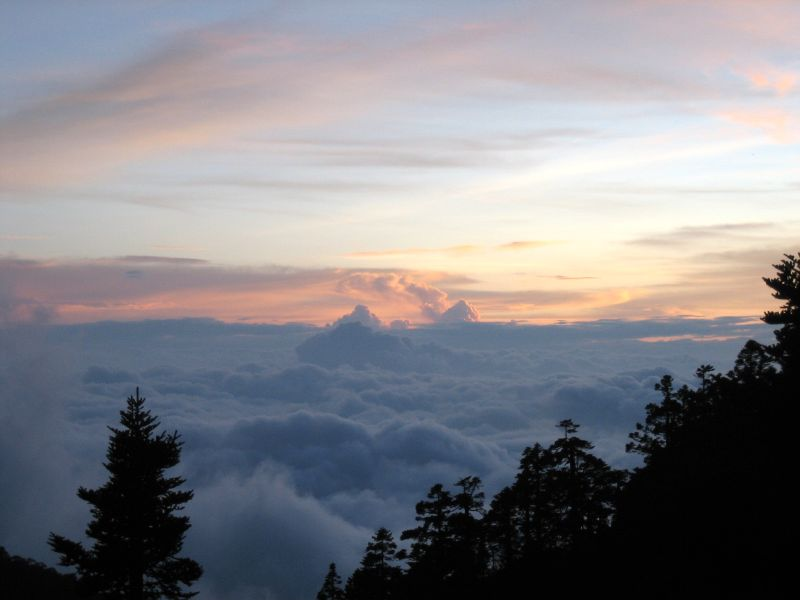 Sea of Clouds at the Paiyun Lodge, shortly before sunset.